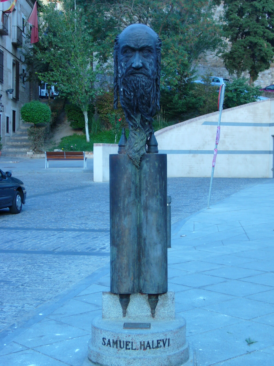 A monument to Samuel ben Natan Neta HaLevi: (1738-1827) was an Orthodox rabbi and Halakhist ("Authority on Jewish law") known to scholars of Judaism. I take this photo on a visit to the city of Toledo,Spain.